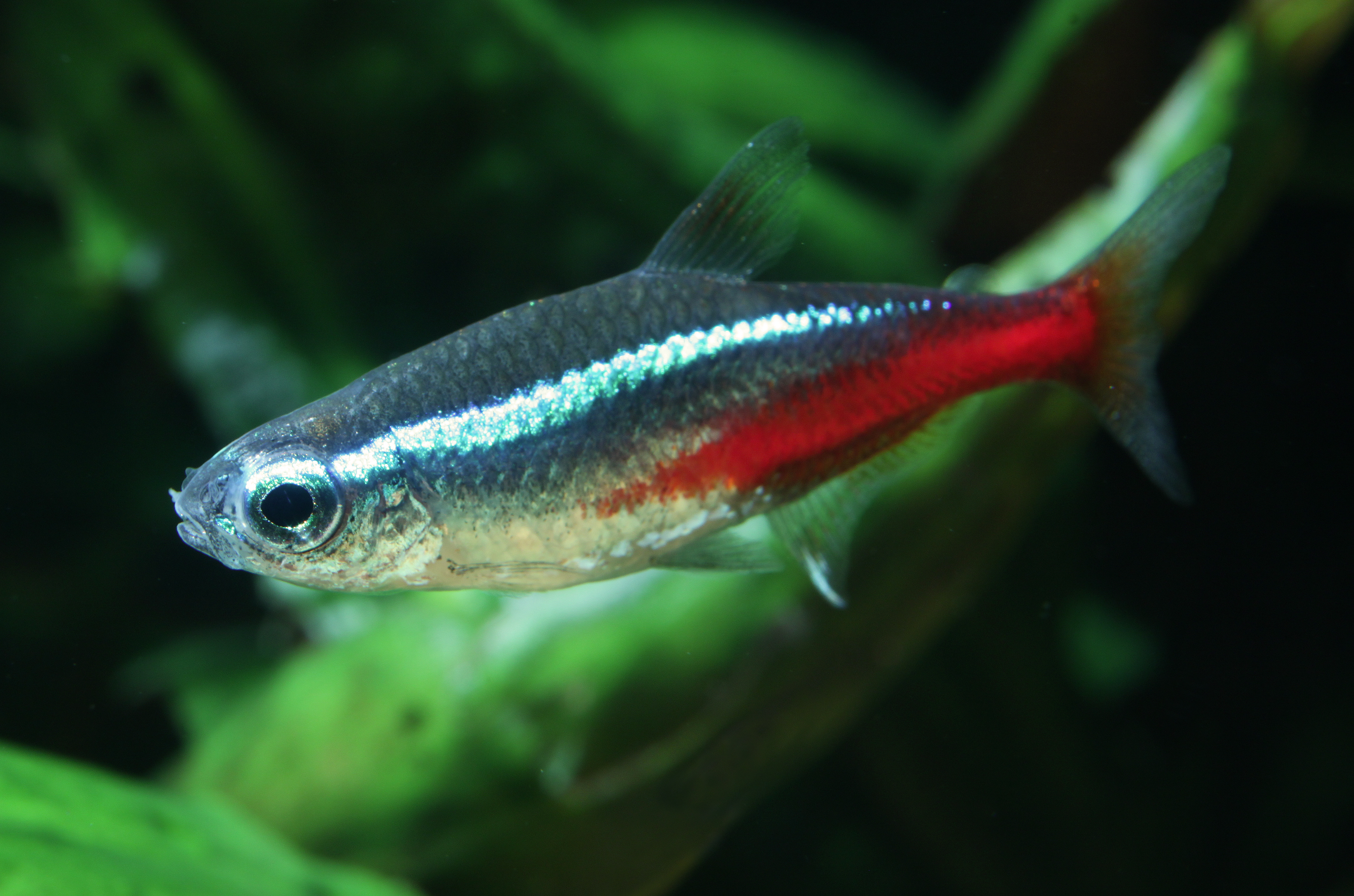 Neon Tetra, Paracheirodon innesi, Family: Characidae